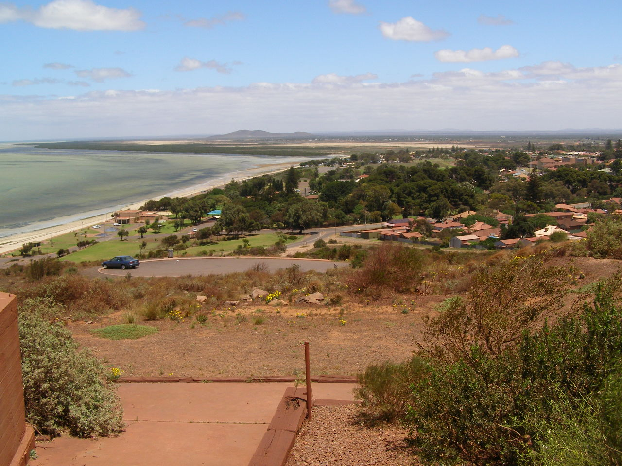 View of the foreshore of Whyalla from the Hummock Hill lookout, Whyalla, South Australia